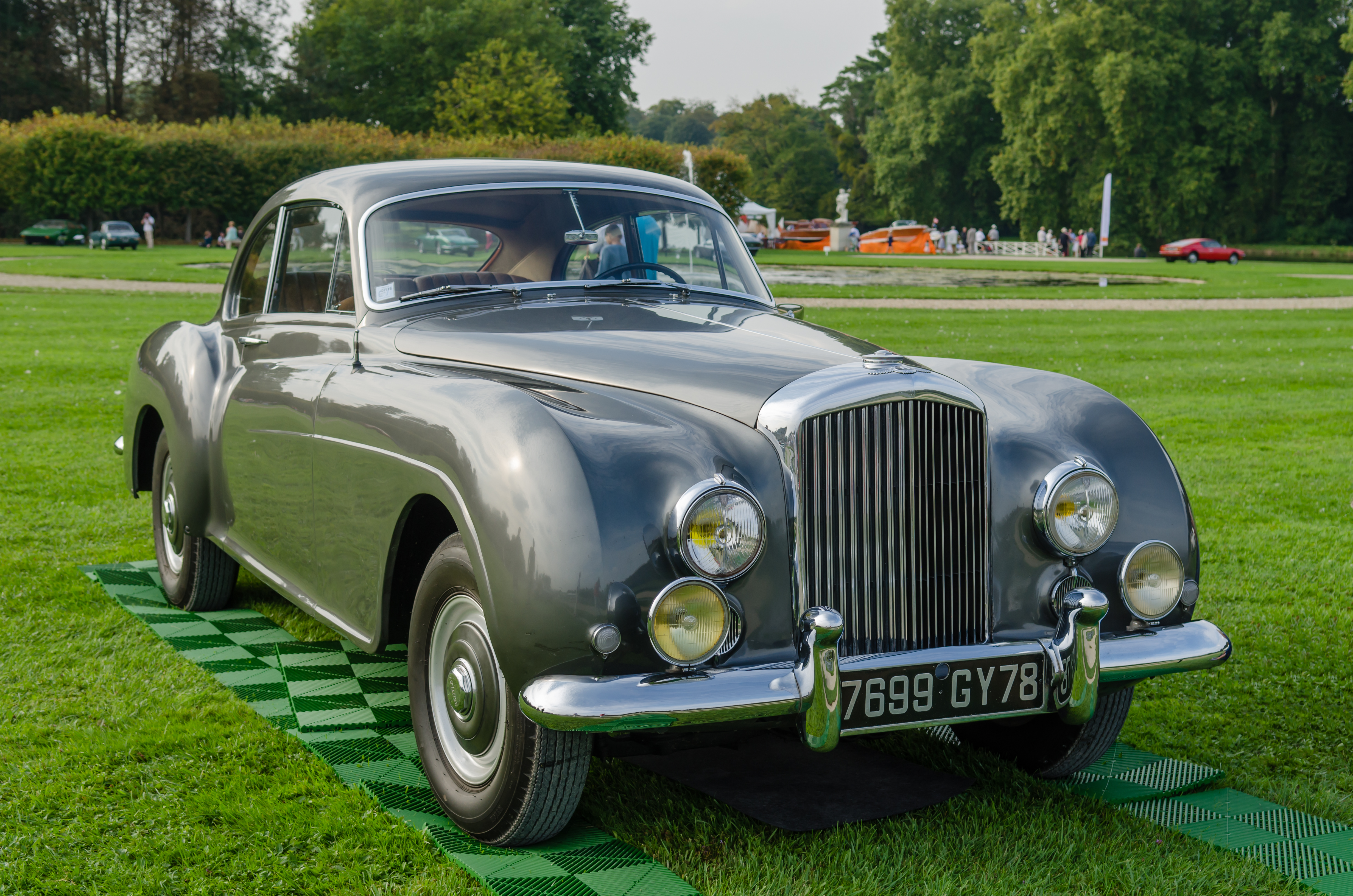 1954 Bentley Continental R by HJ Mulliner & Co